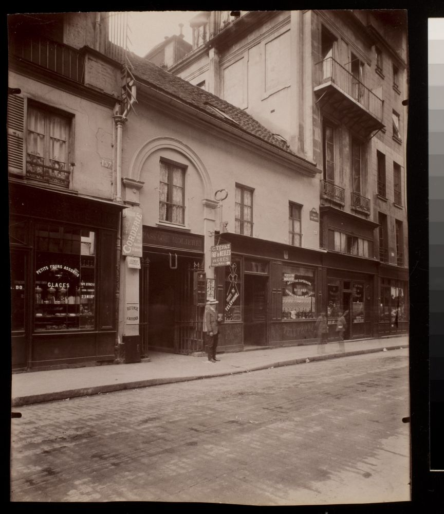 Digital Accession Number: 1981:0952:0053.0001 Maker: Eugène Atget (French, 1857-1927) Title: Entree du Passage Moliere 157 Rue St. Martin (3e) Date: 1908 Medium: albumen print Dimensions: 21.8 x 17.6 cm. (trimmed) George Eastman House Collection General – information about the George Eastman House Photography Collection is available at For information on obtaining reproductions go to